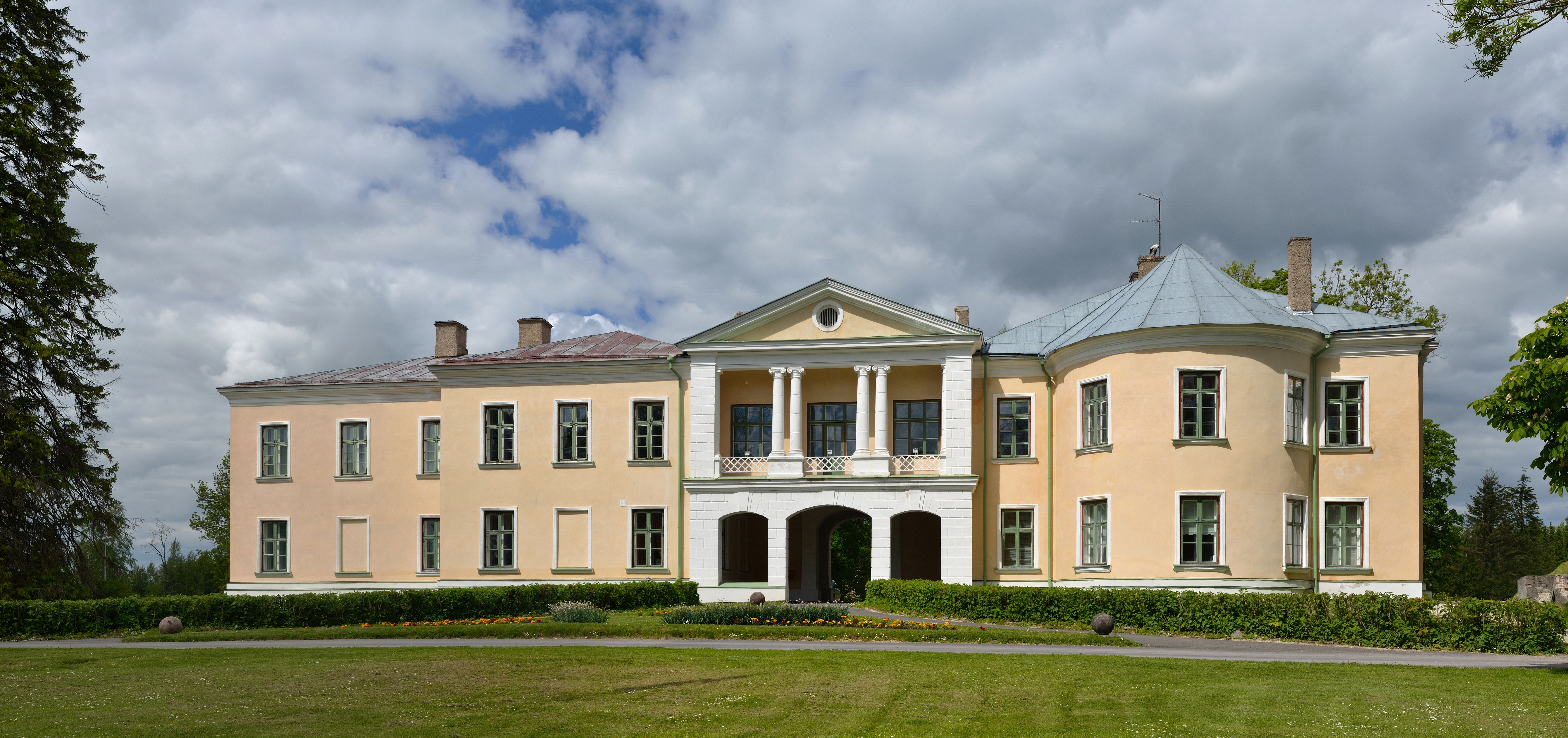 Mõdriku manor main building with car removed by Photoshop